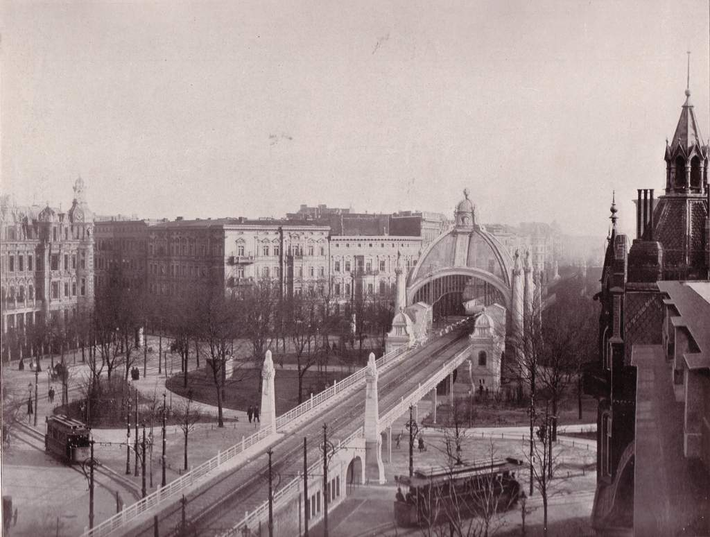 Nollendorfplatz underground station, Berlin, Germany